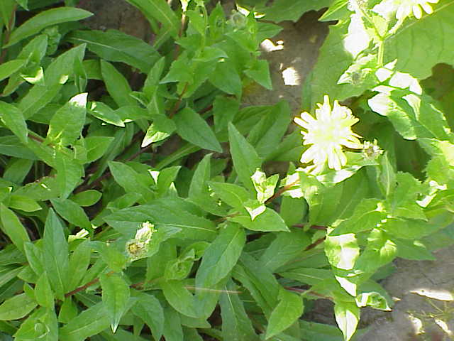 Species: Crepis blattarioides Family: Compositae Image No. 2